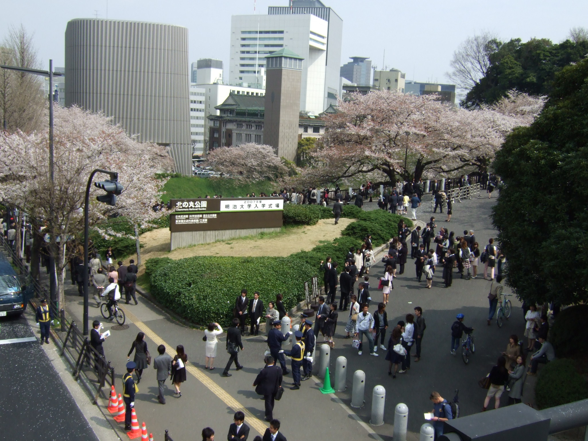 Students coming from the Meiji University entrance exam in Tokyo